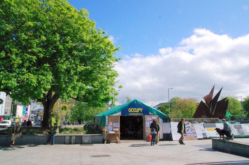 Galway City Occupy Camp located alongside the famous fountain in Eyre Square on one of our rare sunny days.